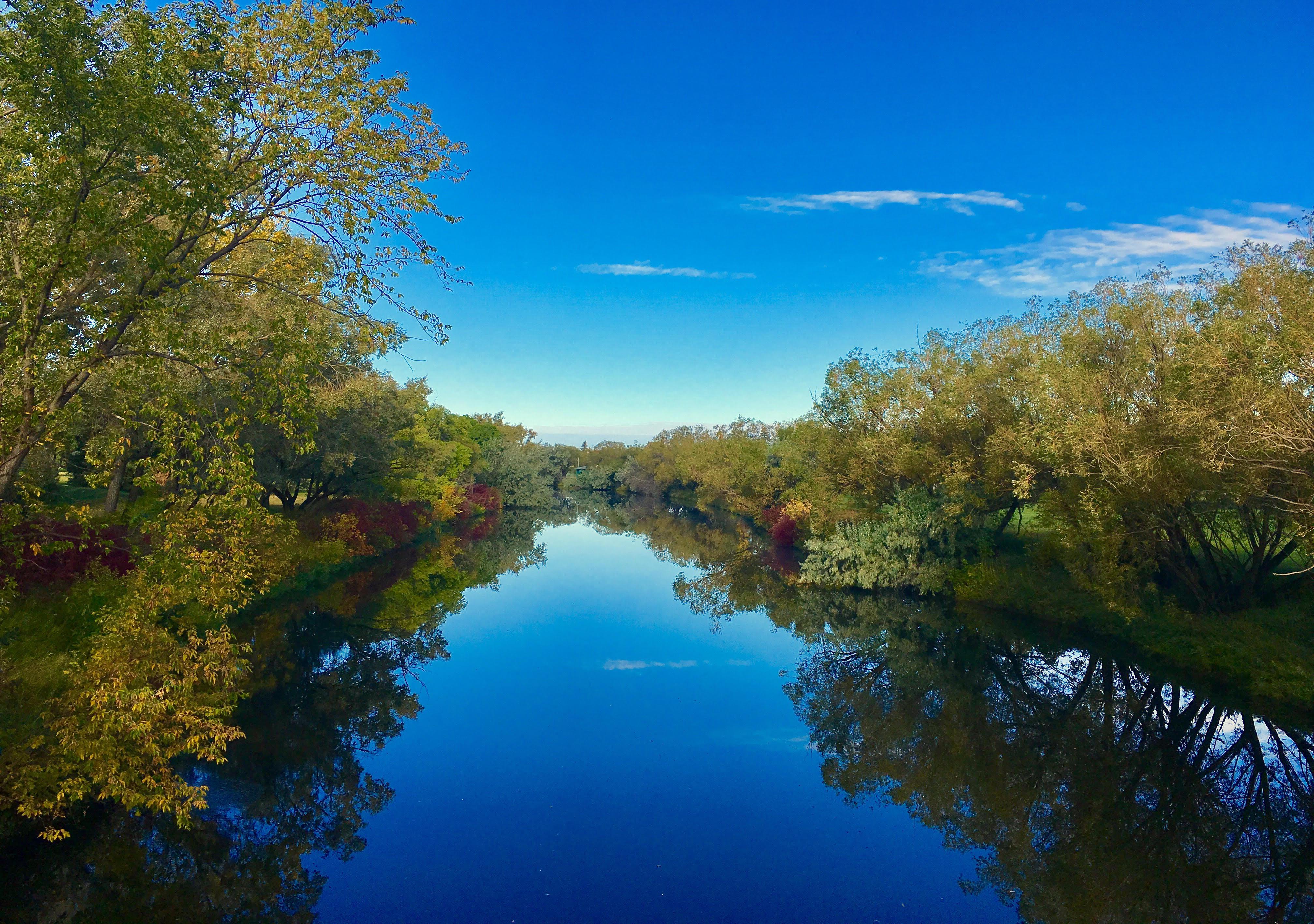 Wascana Creek, Les Sherman Park, Regina, Saskatchewan, Fall, 2017